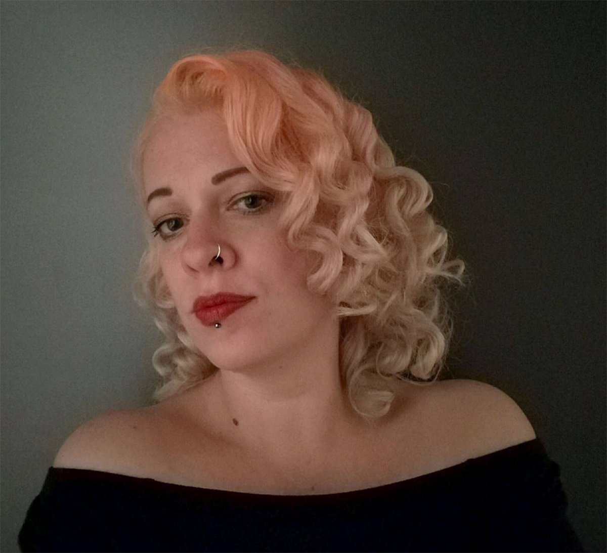 Jasmin Hagendorfer (Vienna, 2017).